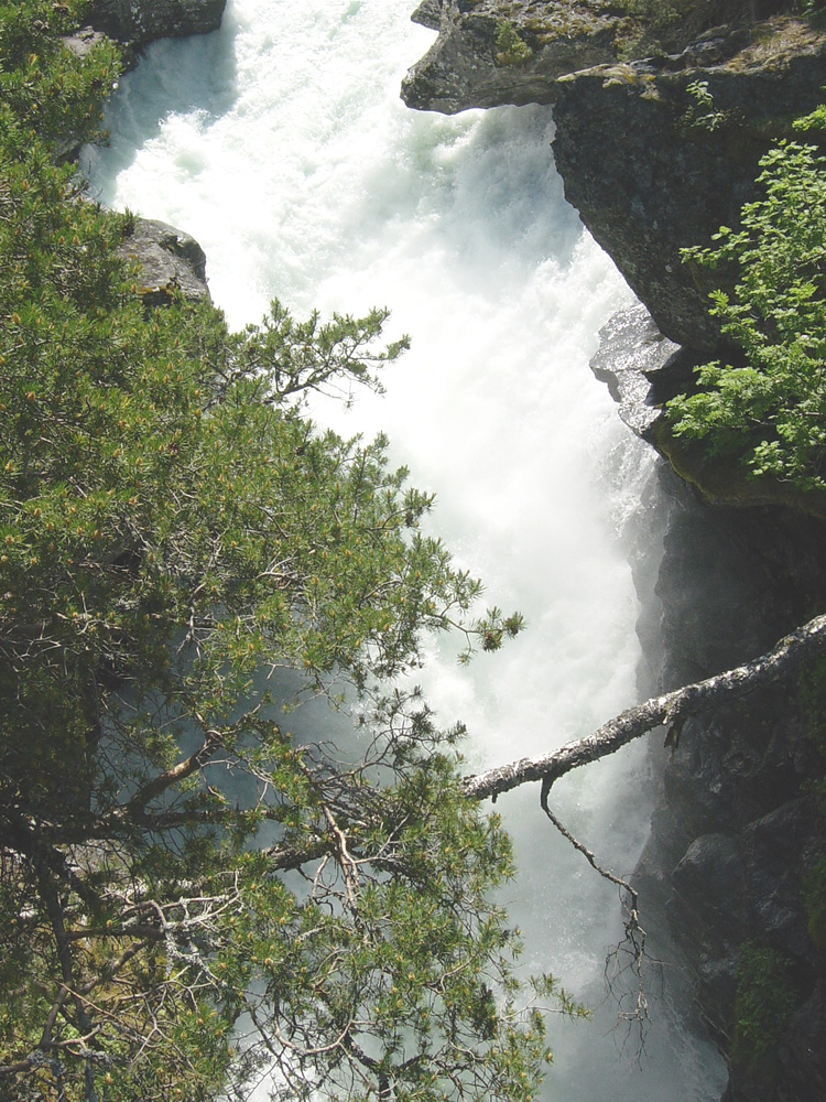 Rauma and the Slettafoss